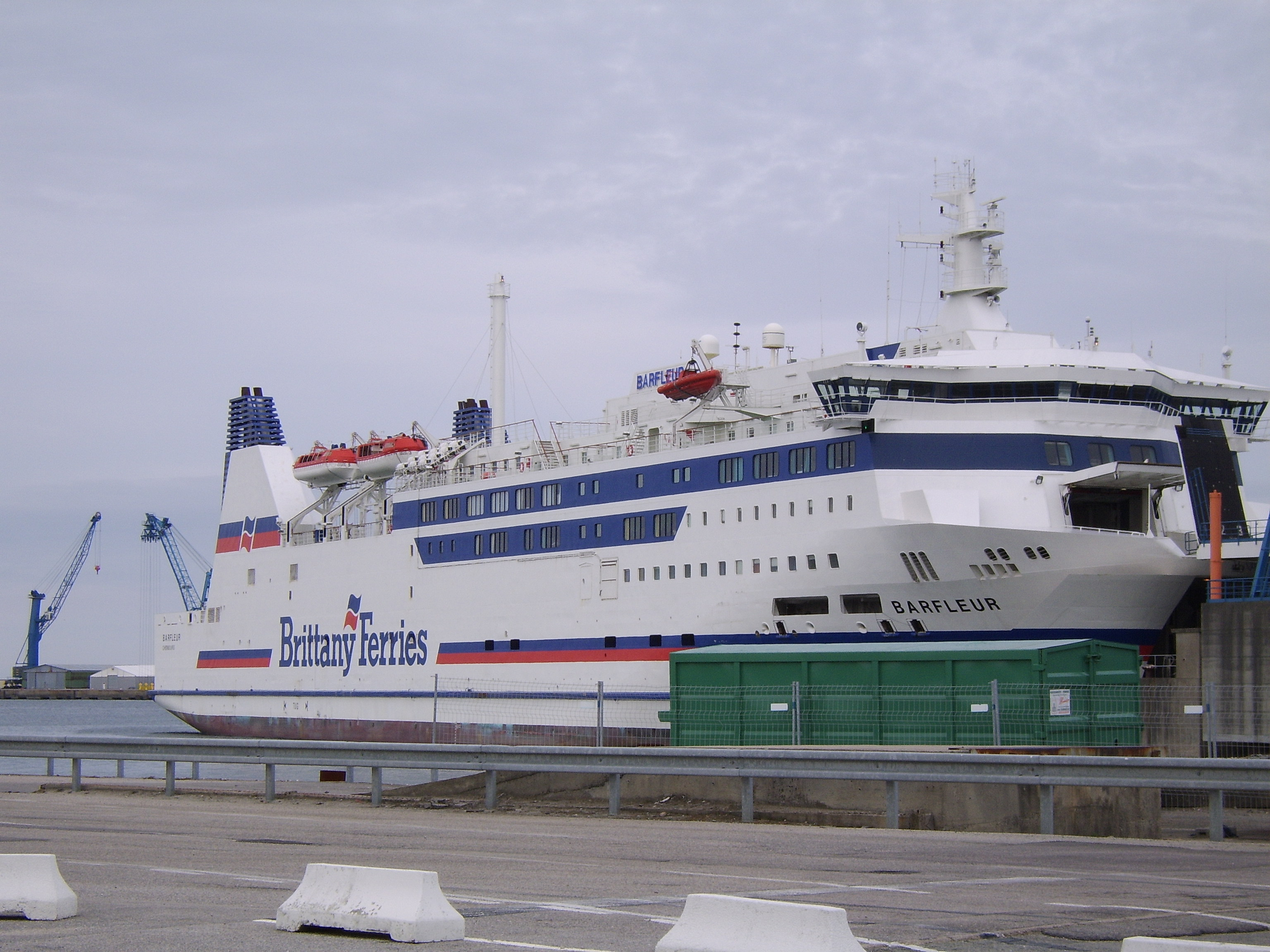 A picture taken by me of the Brittany Ferries ship, M/V Barfleur IMO Number: 9007130 MMSI Number: 227289000 Callsign: FNIE Length: 158 m Beam: 24 m